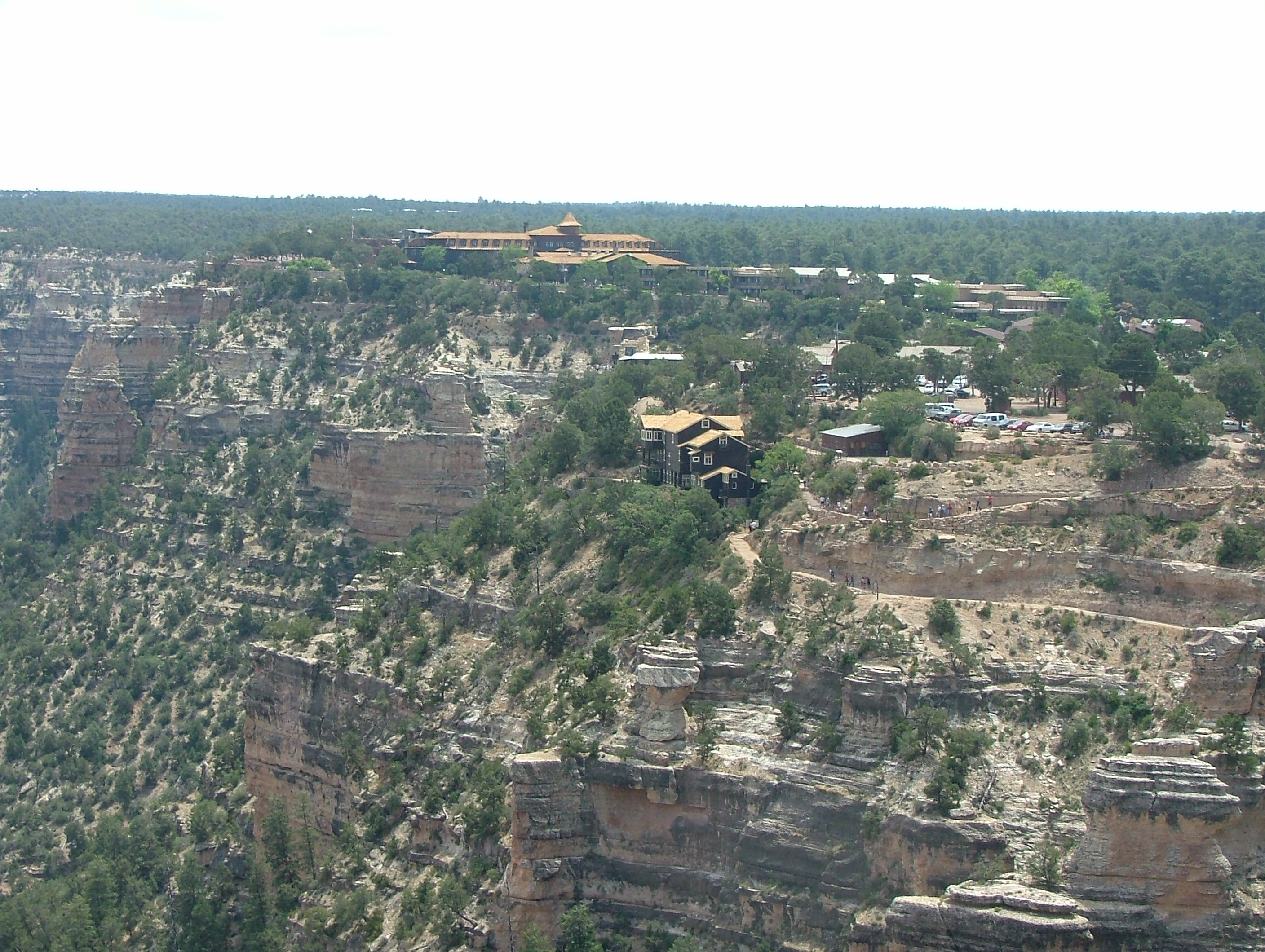 Grand Canyon with El Tovar Hotel in the background.